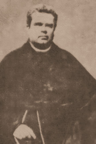 Fr. Leopold Moczygemba (1824-1891) - founder od Panna Maria, TX USA in 1854.